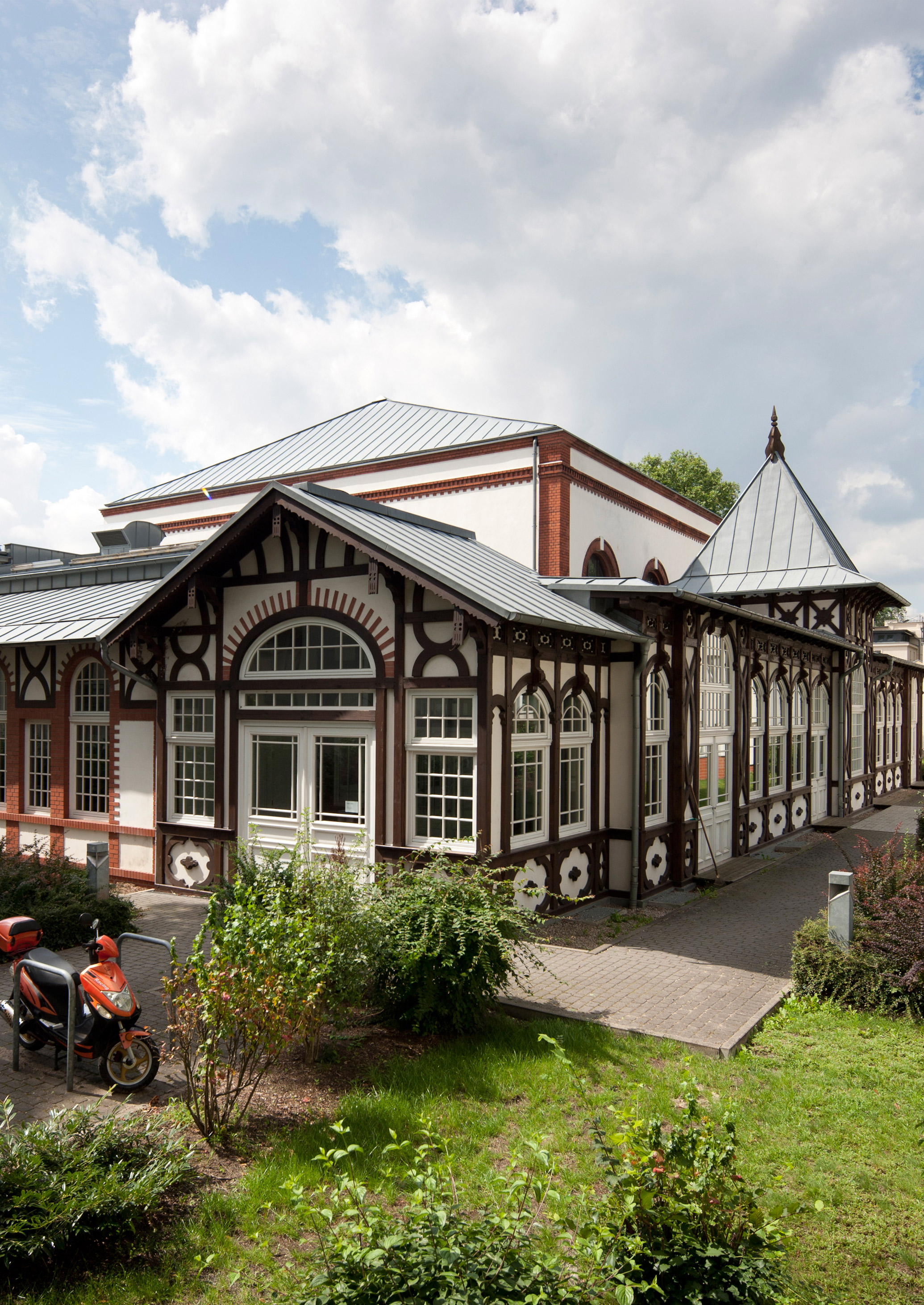 Ballroom Pankow in Berlin-Pankow, Germany (Grabbeallee 53 / Tschaikowskistrasse)